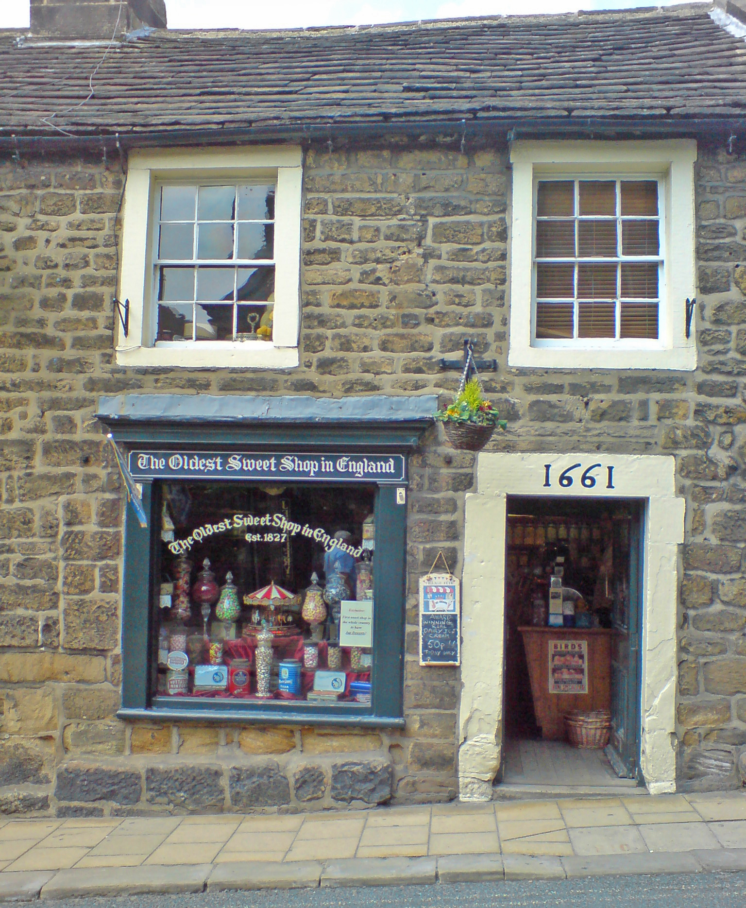 The oldest sweet shop in England